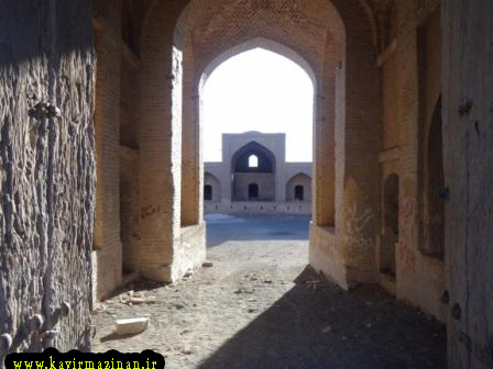 اثار باستانی